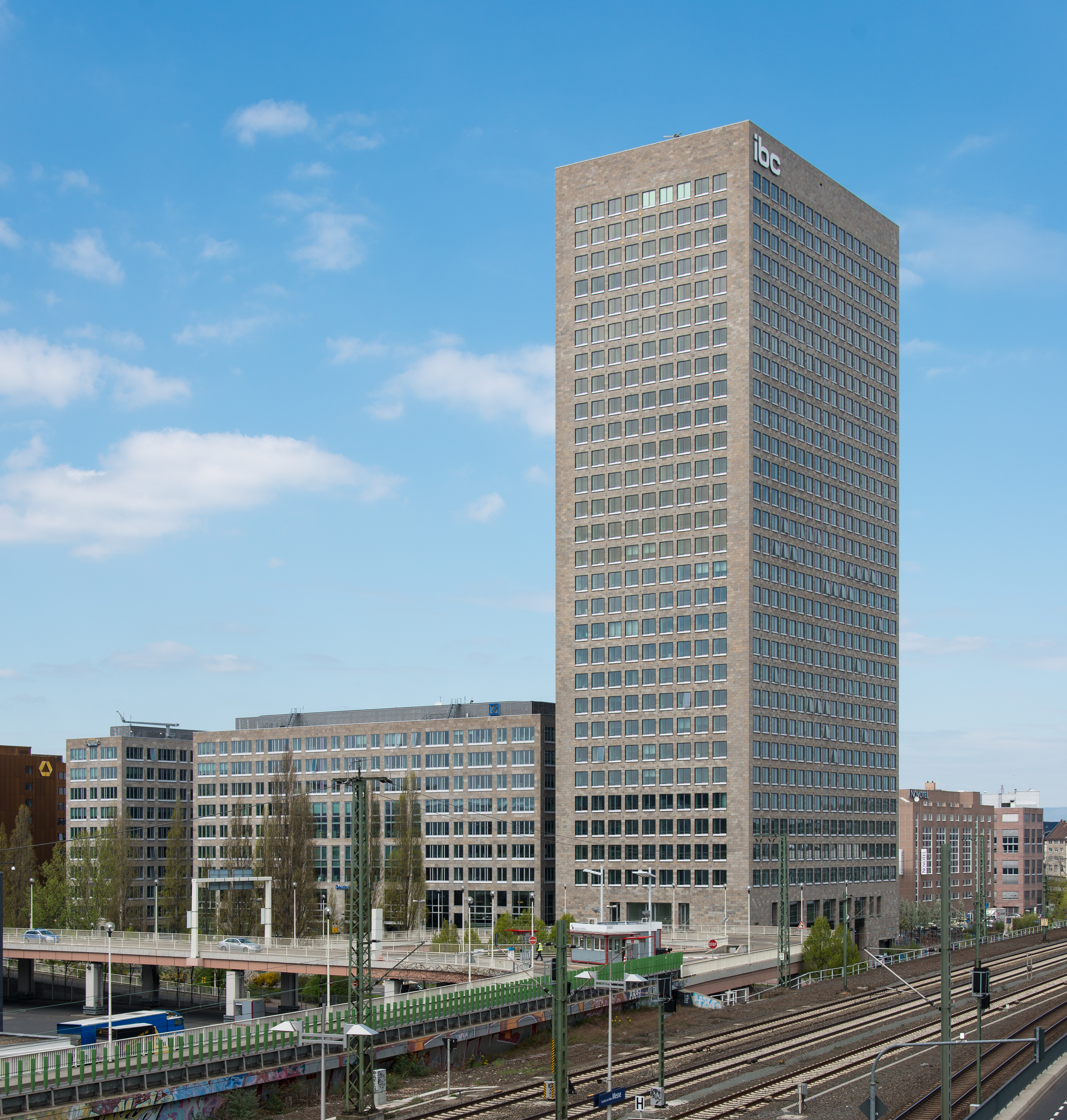 Frankfurt Theodor-Heuß-Allee 70-74, Investment Banking Center (IBC) complex with 112 meter tall high-rise building, as seen from the Emser bridge (April 2013)